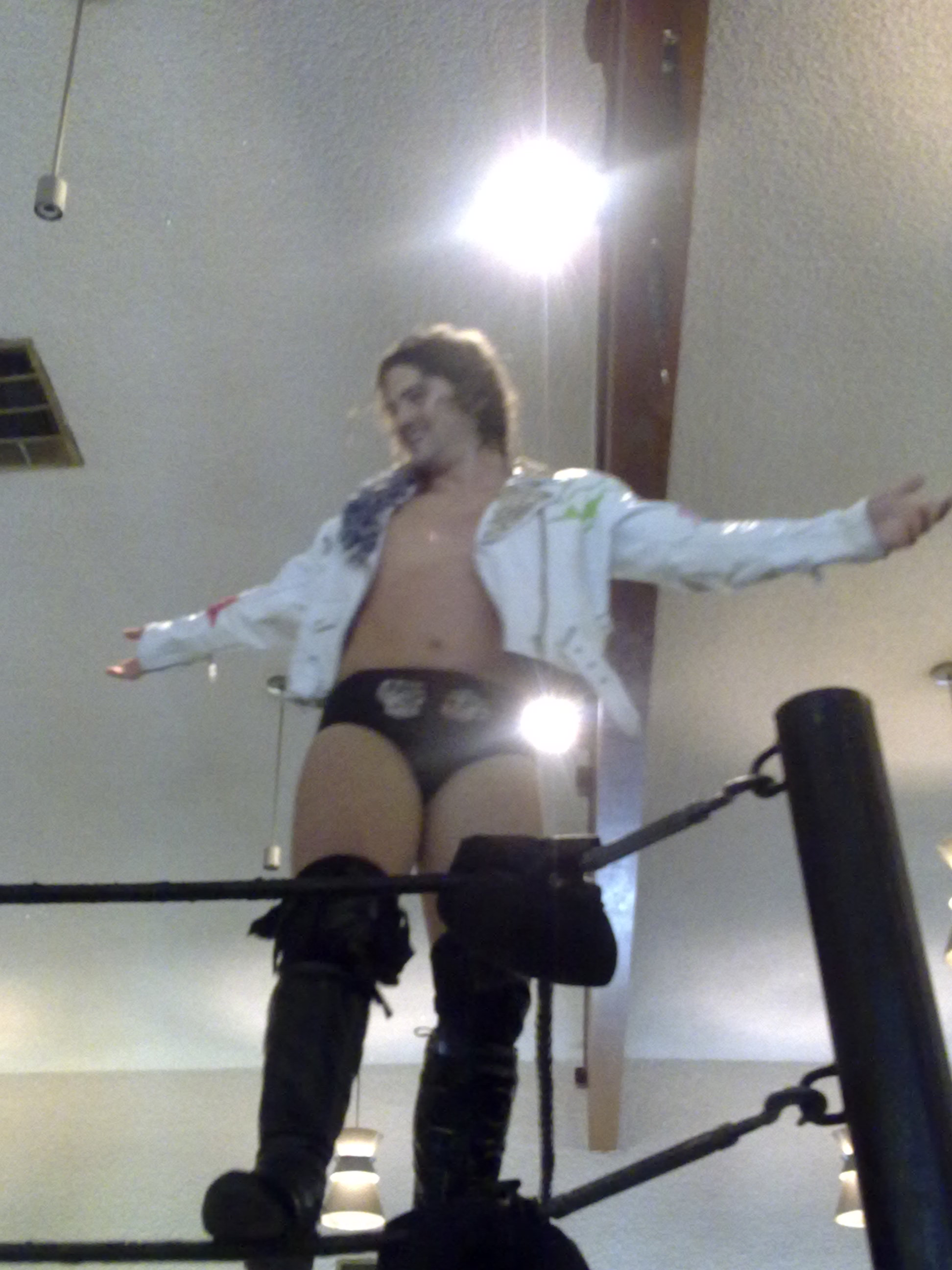 Professional wrestler Brian Kendrick at Pro Wrestling Guerilla's Battle of Los Angeles show on November 20, 2009